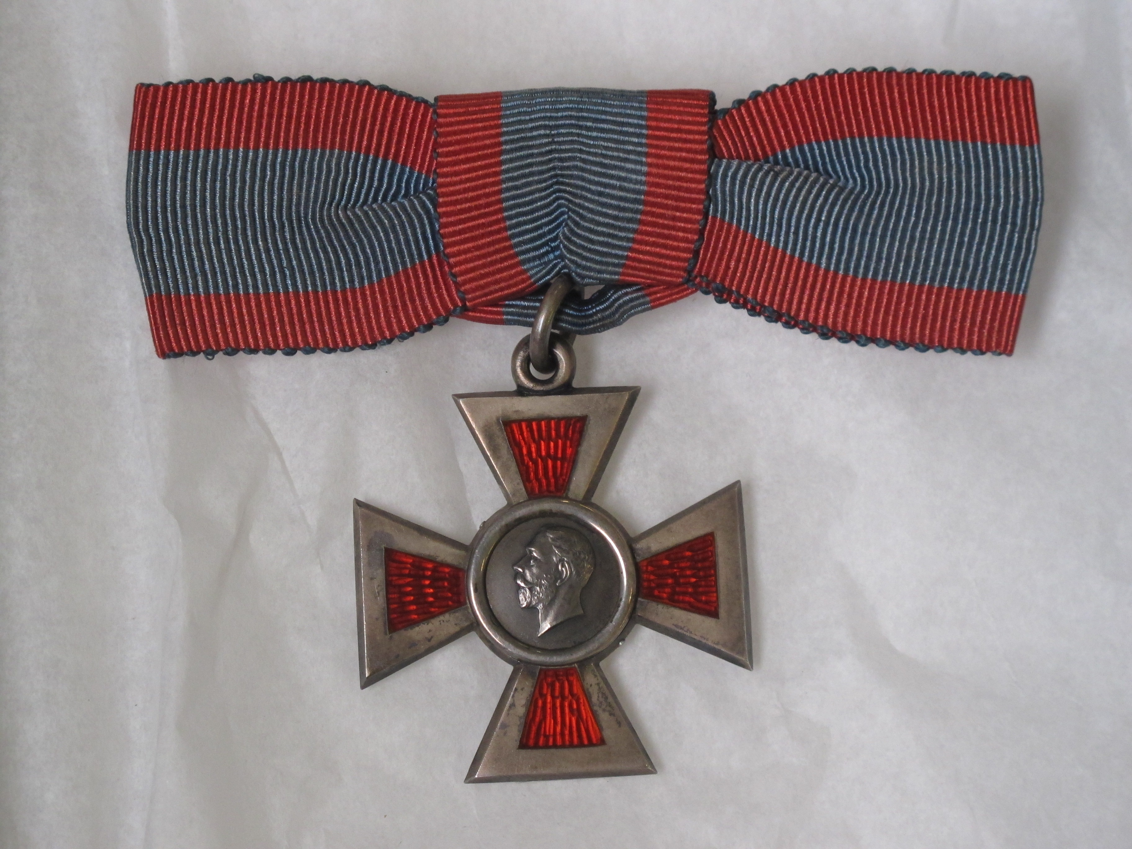 Royal Red Cross 2nd Class (ARRC) awarded to Sister Emma Bennett (French Red Cross, QAIMNSR, NZANS), WW1 silver cross, 35 mm width, plain ring suspension, with ribbon, Obverse- enamelled red, with broad silver edges around the enamel, a circular medallion bearing effigy of reigning monarch. Reverse- circular medallion bearing the Royal Cypher of the reigning monarch (Geo V - GRI), as well as the words "Faith", "Hope" and "Charity" inscribed on the upper limbs of the cross, with the year "1883" in the lower limb ribbon- 32mm wide grosgrain, dark blue with crimson edge stripes